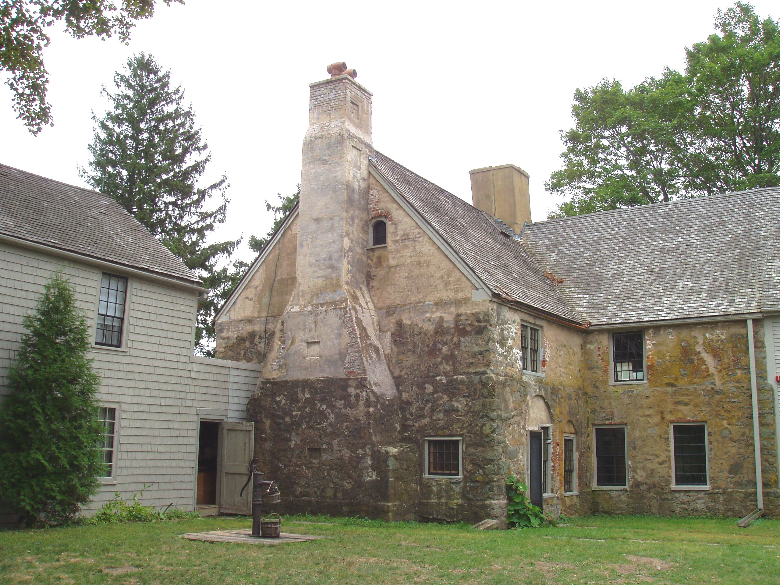 Spencer-Peirce-Little Farm - Newbury, Massachusetts. Rear oblique view, showing kitchen chimney. Photograph taken by me, September 2005.